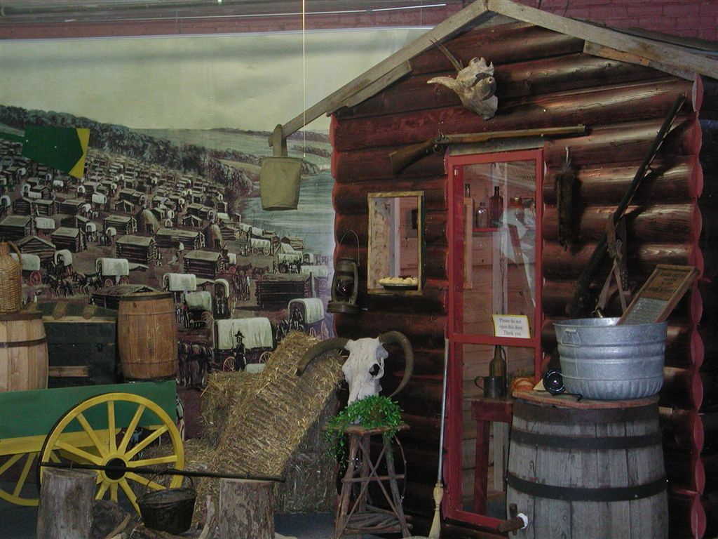 Image of a replica of what a house on the American western frontier might have looked like on display at the Museum of World Treasures in Wichita, KS.